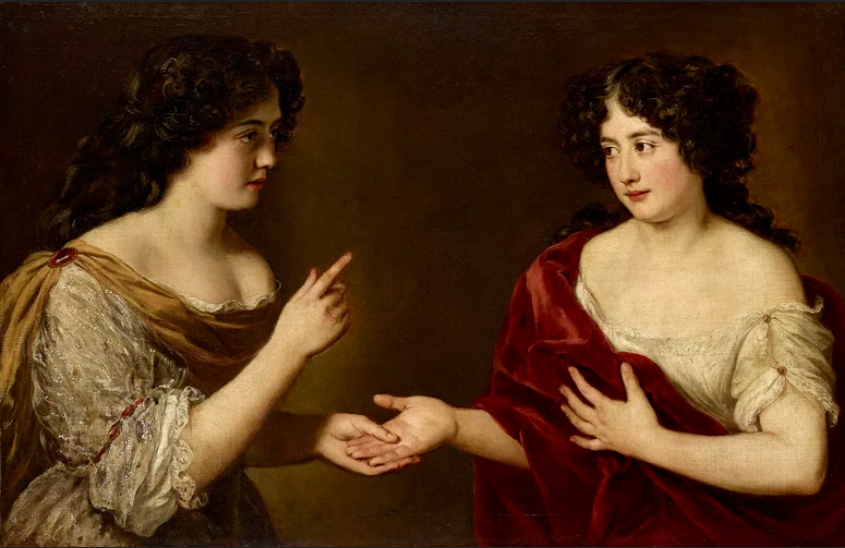 Portrait of Hortense Mancini and her sister Marie